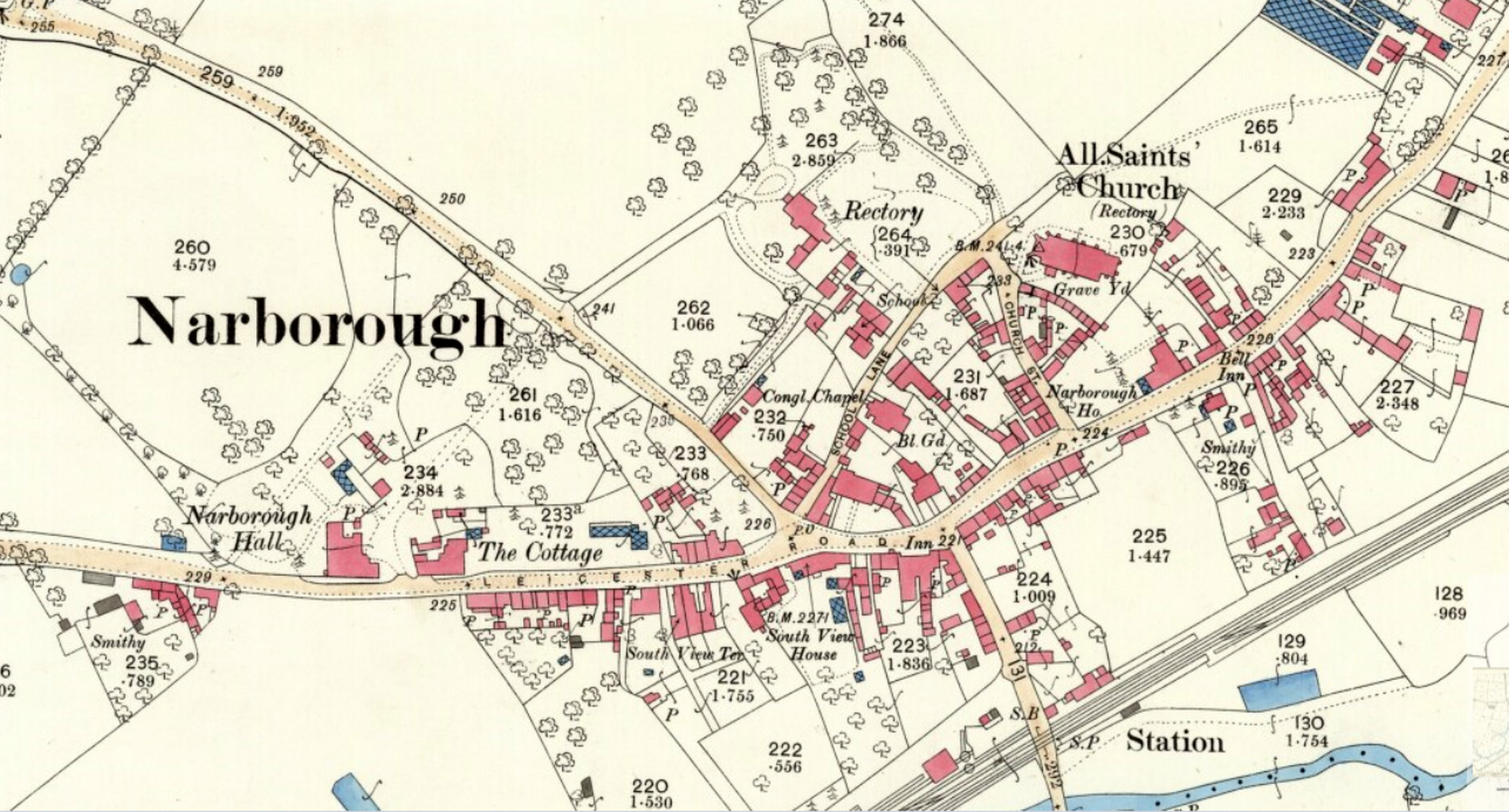 Map of Narborough, Leicestershire 1886